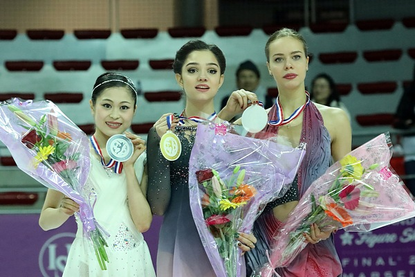 The ladies podium at the 2016-2017 Grand Prix of Figure Skating Final. From left: Satoko Miyahara (2nd), Evgenia Medvedeva (1st), Anna Pogorilaya (3rd).